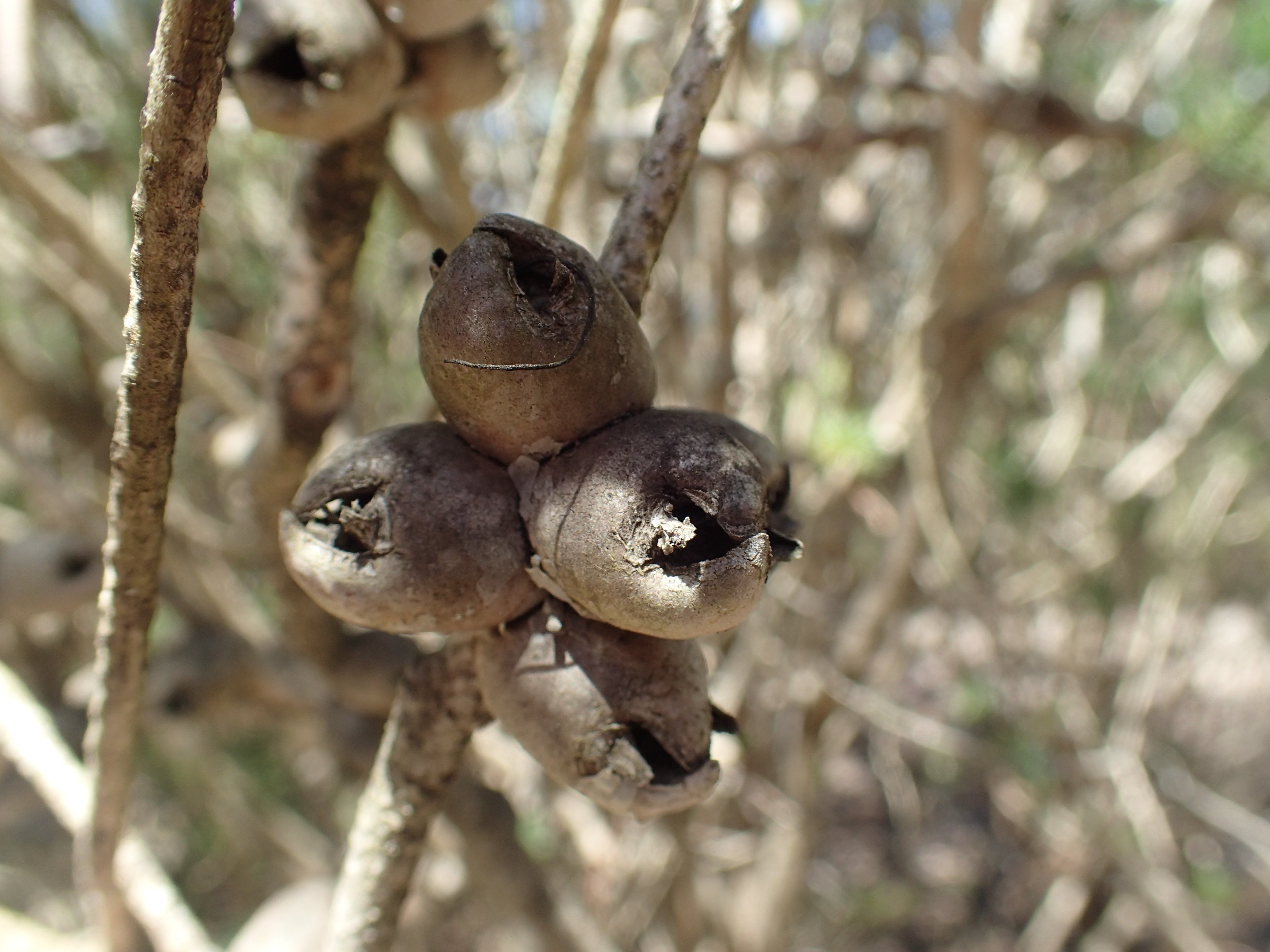 Calothamnus rupestris fruit (ANBG)